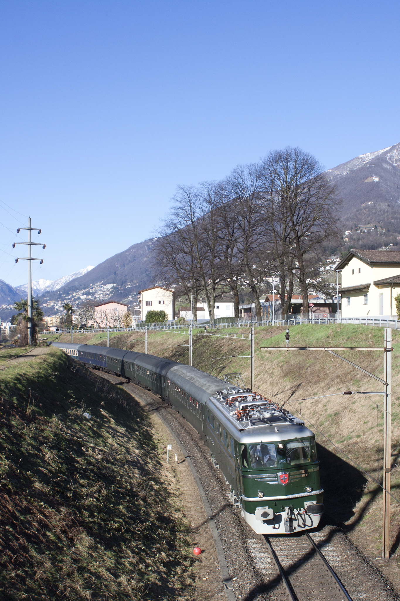 SBB CFF FFS Ae 6/6 11407 "Aargau" (owned by SBB CFF FFS Historic and loaned to association "Mikado 1244") ahead of a special train from Locarno to Mendrisio at Gordola.